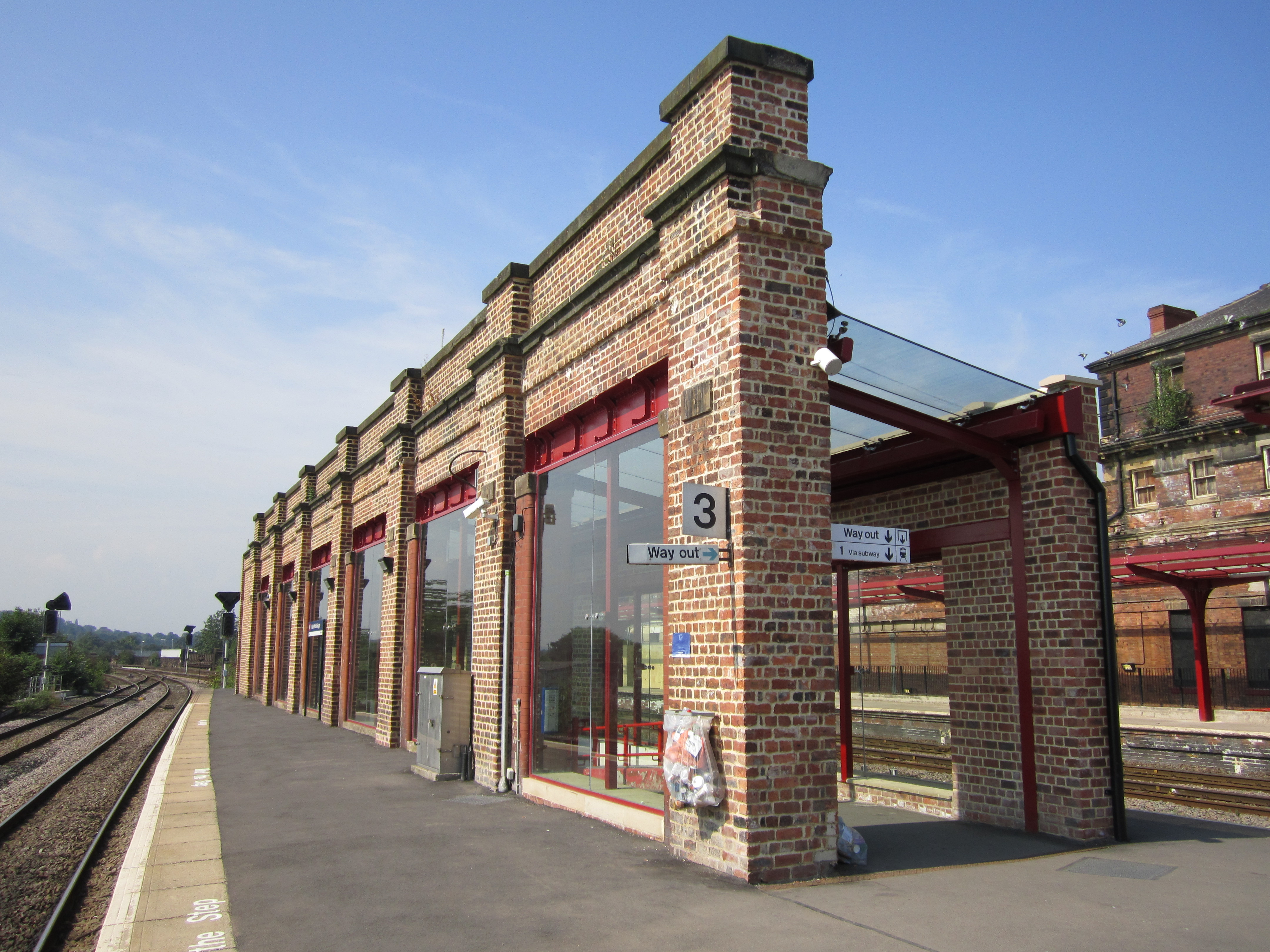 Photo taken at Wakefield Kirkgate railway station, West Yorkshire, England.